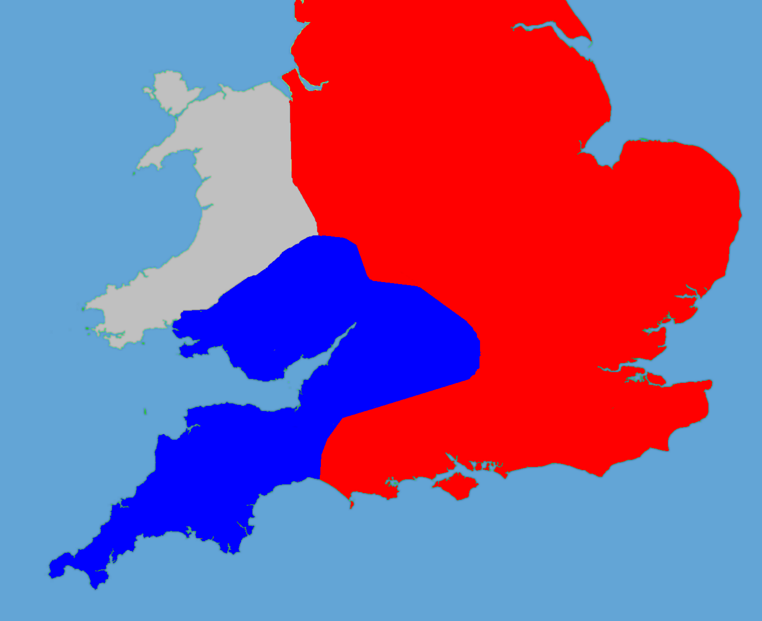 A political map of England in 1140, based on data in Jim Bradbury's book "Stephen and Matilda", p.89 and p.180. The original map was a blank locator map for Great Britain. The idea is to superimpose Image:dot4gb.svg at the appropriate point. See Template:GBthumb for code to do this. These two images can replace any locator map posted by Lupin - see Special:Contributions/LupinBot. This is a vectorized version of Image:Gb4dot.png, with the scale changed from 200 km to 150 km/150 miles. The shoreline data come from the file gshhs_h.b from the GSHHS, and the rivers and the Irish border come from the CIA World DataBank II; both sources are in the public domain. Mercator projection. ==